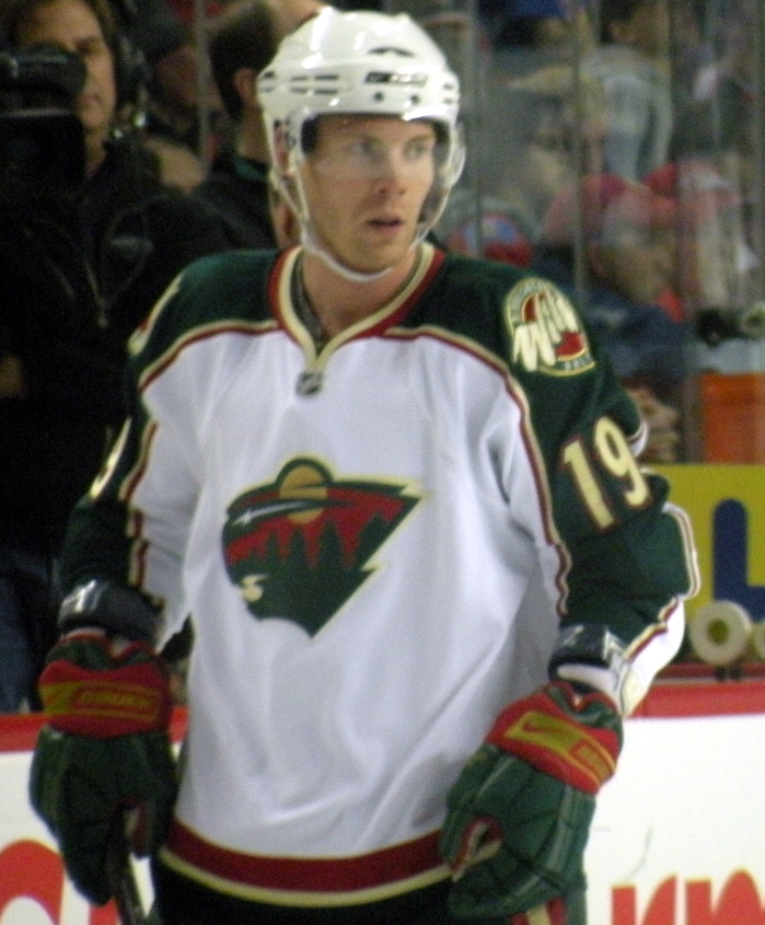 Minnesota Wild forward Stephane Veilleux during warm-up prior to a National Hockey League game against the Calgary Flames in Calgary